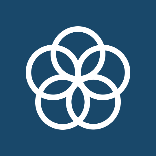 Logo of SDG17 Partnership for the Goals